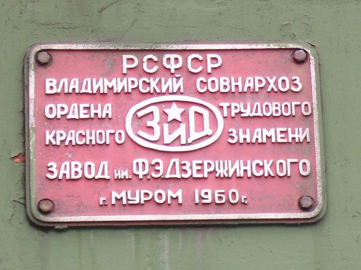 The tablet of diesel locomotive TGM1